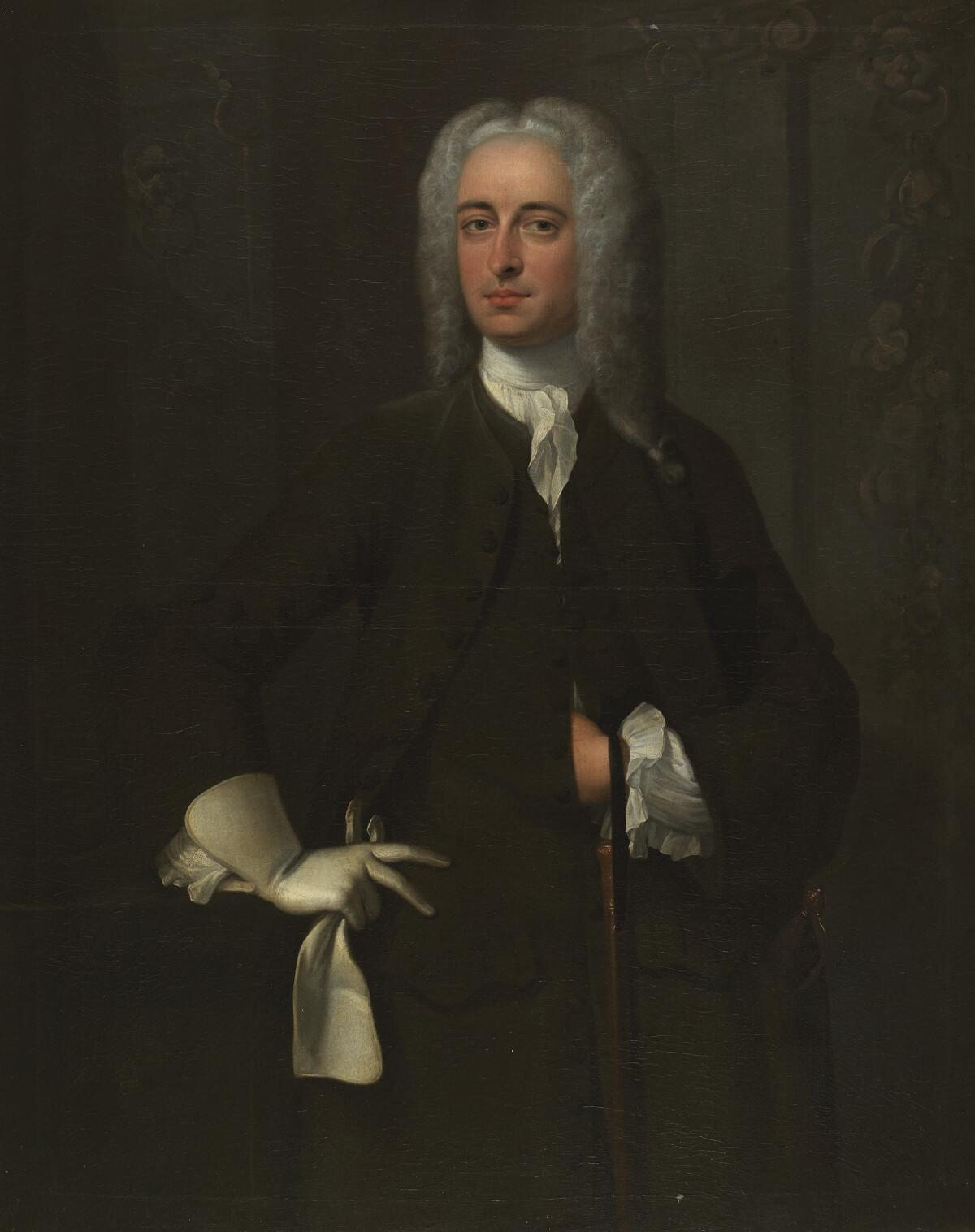 A painting from the Framed Works of Art collection at the National Library of wales.